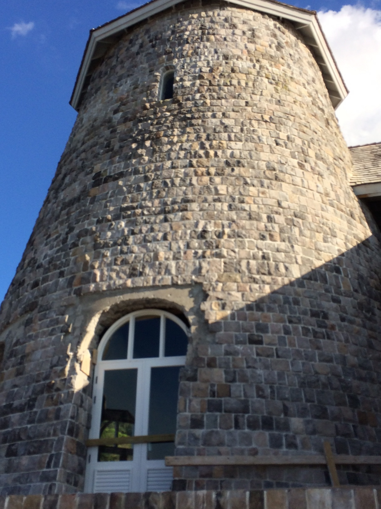 St Kitts' tower